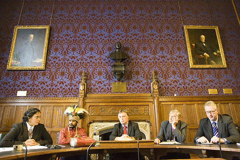 photo of the launch of International Parliamentarians for West Papua